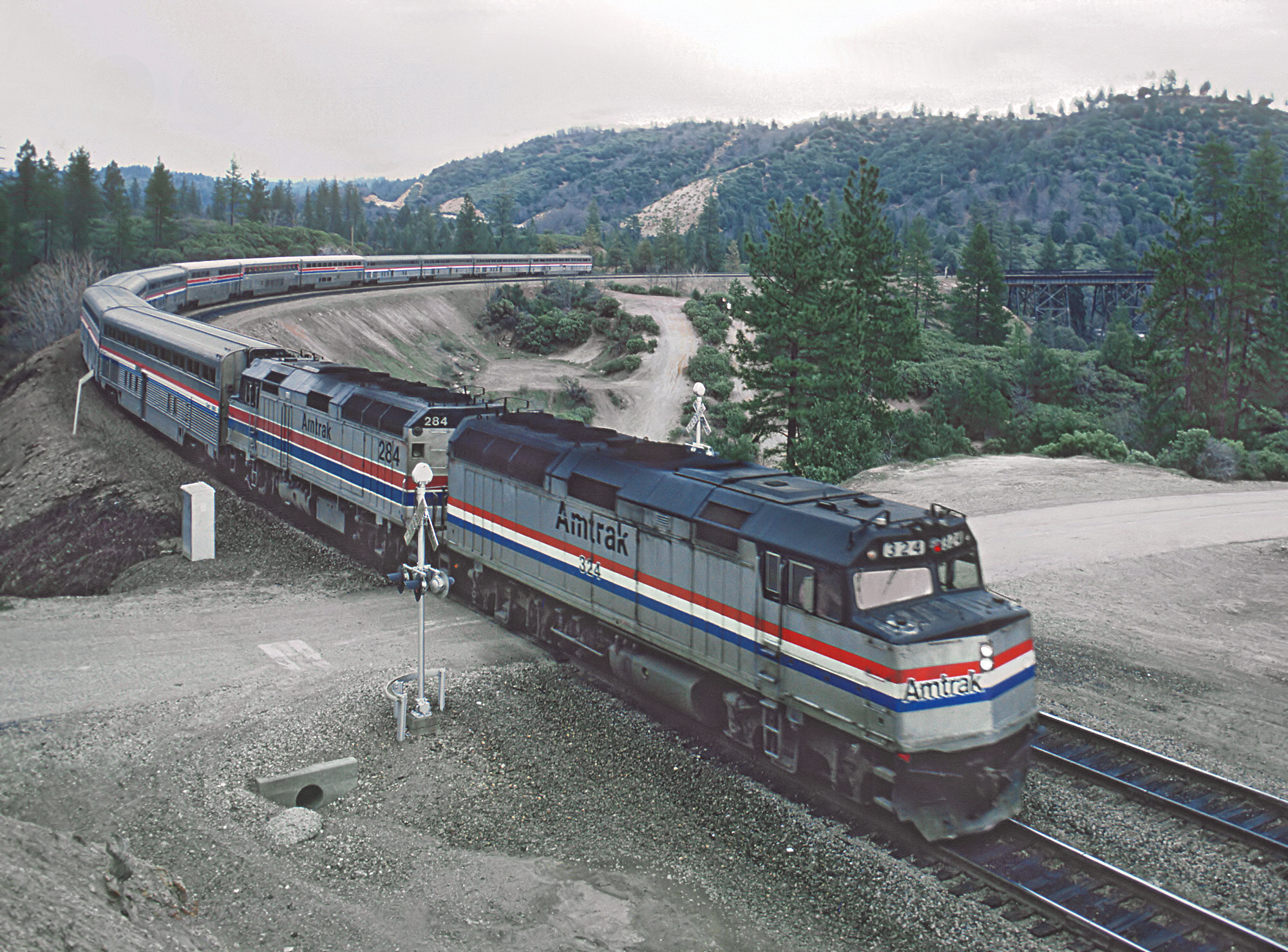 Amtrak locomotive #324 leads the Reno Fun Train near Colfax, California in February 1982